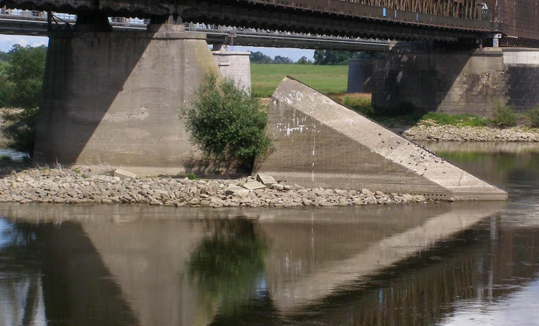 Tczew - the bridge over the Vistula